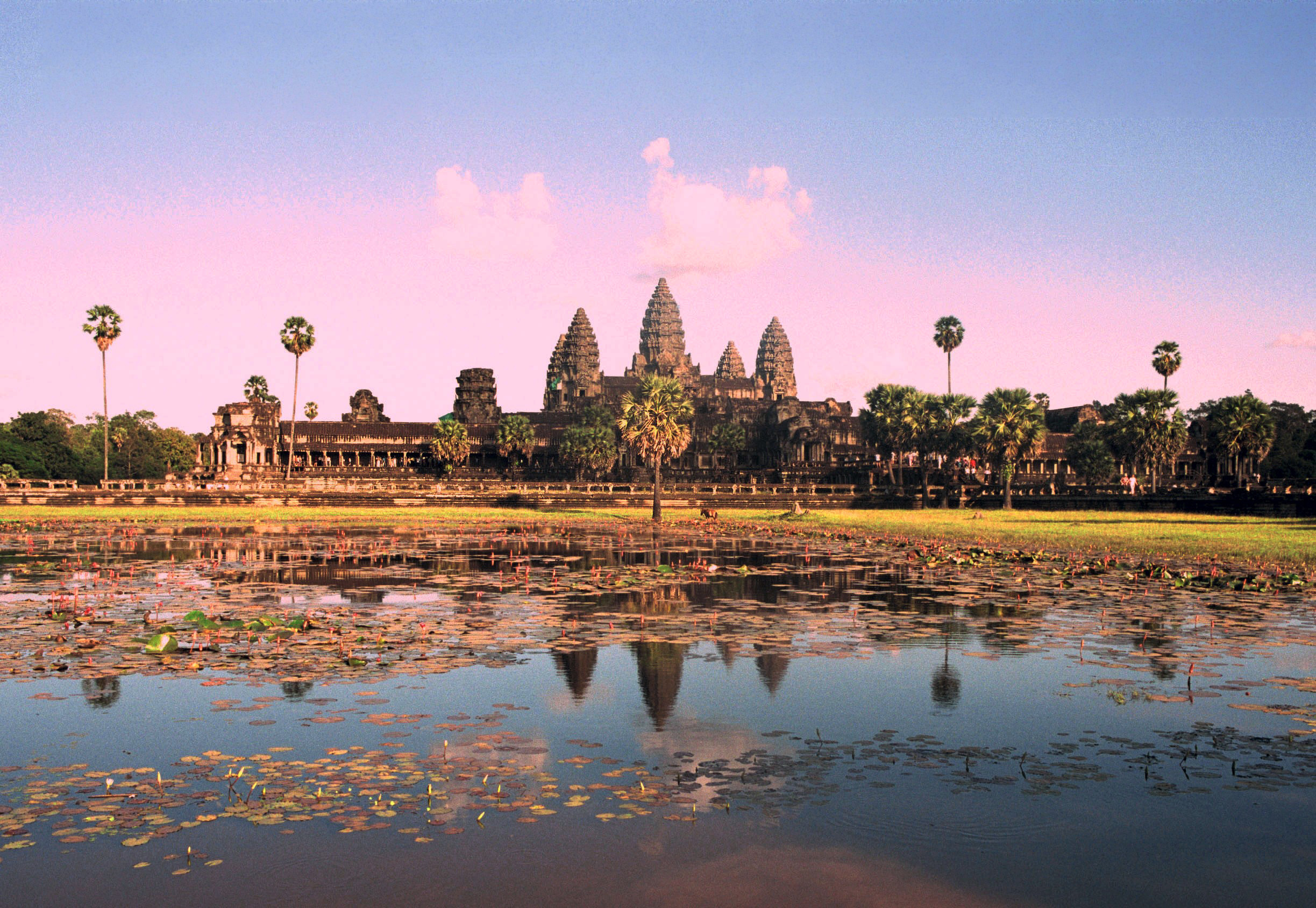 Angkor Wat from north lotus pond